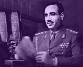 Abdul Salam Arif reading the statement of the 1958 revolution